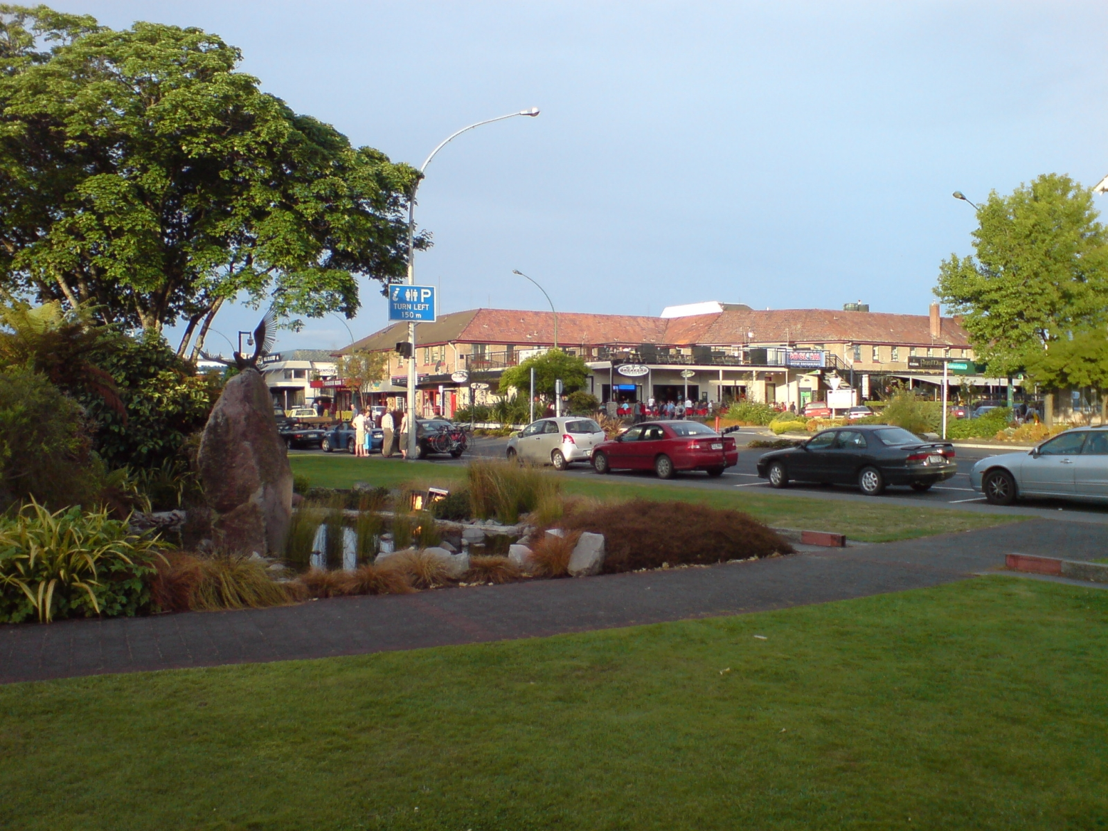 Part of the Taupo Domain and the Taupo mainstreet area, Taupo, Region of Waikato, New Zealand. Image taken looking roughly northeast.